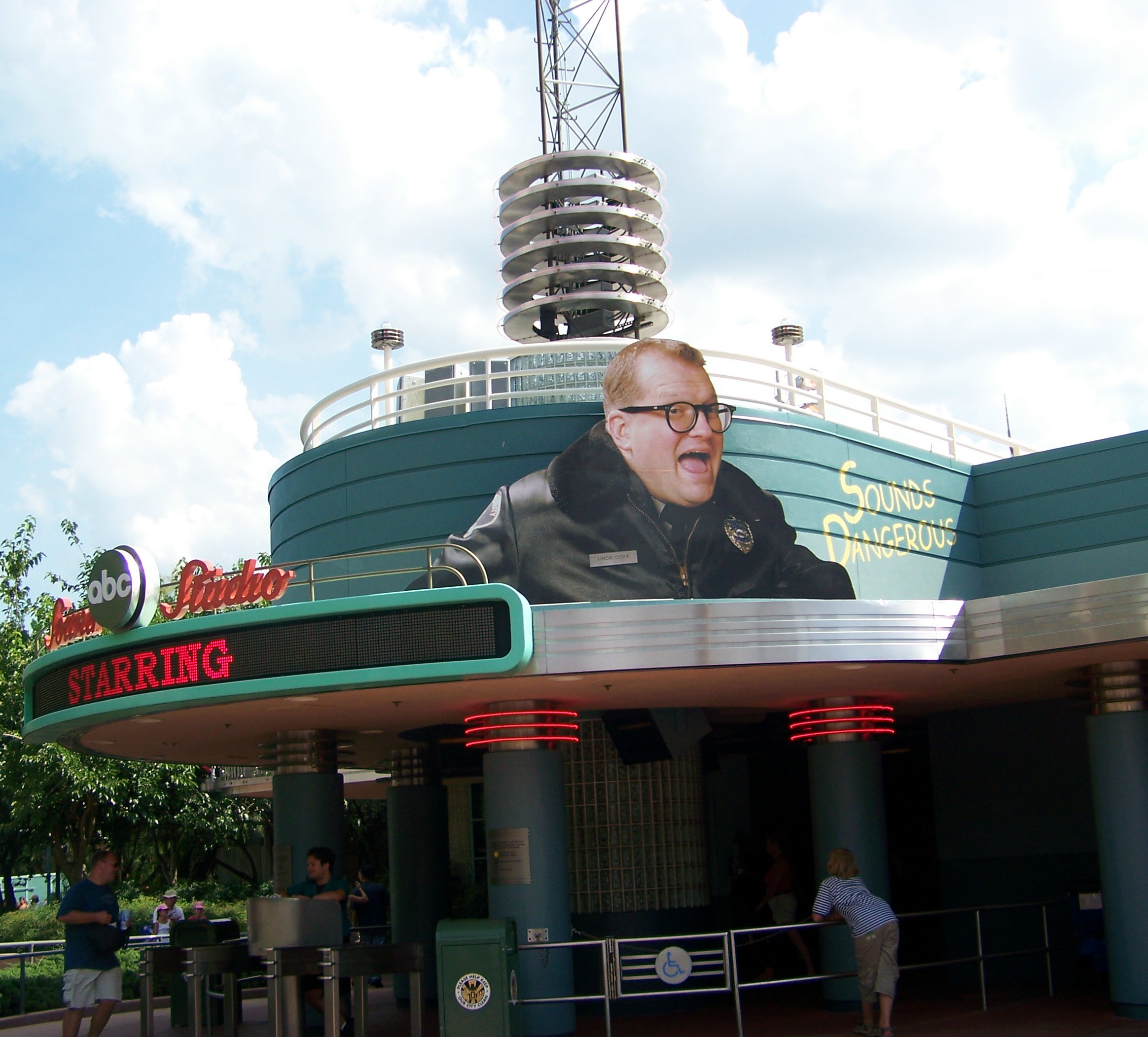 Façade of ABC Studios' ABC Sound Studio building at Disney-MGM Studios that was housing Drew Carey's Sounds Dangerous! attraction on July 26, en:2007.